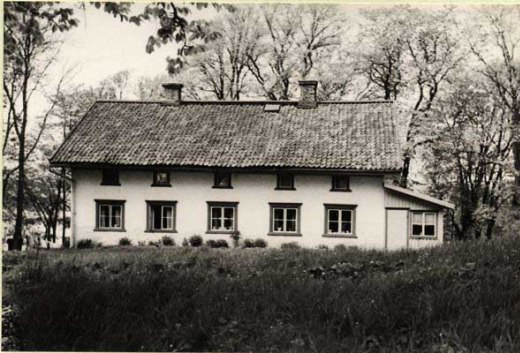 The mansion Fräntorp in Örgryte socken, Gothenburg